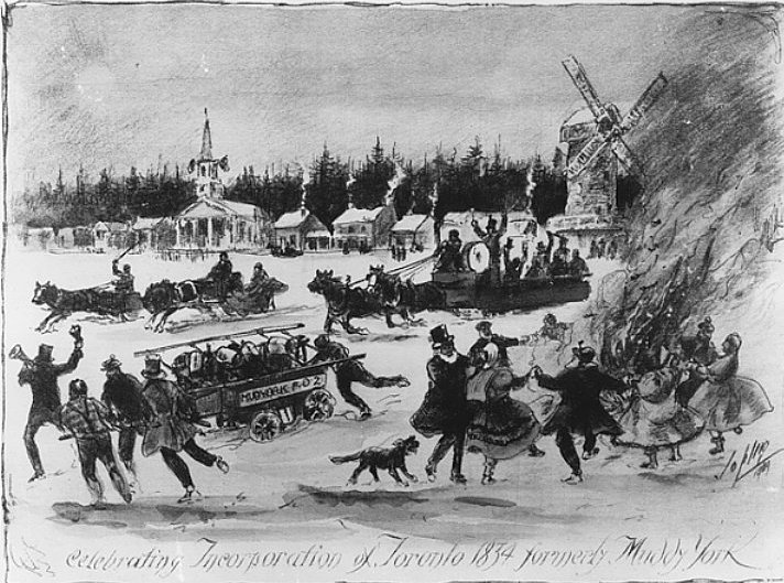 Celebrating the incorporation of the City of Toronto, Upper Canada, in 1834. With a population of 10,000, it became the province's first incorporated city.